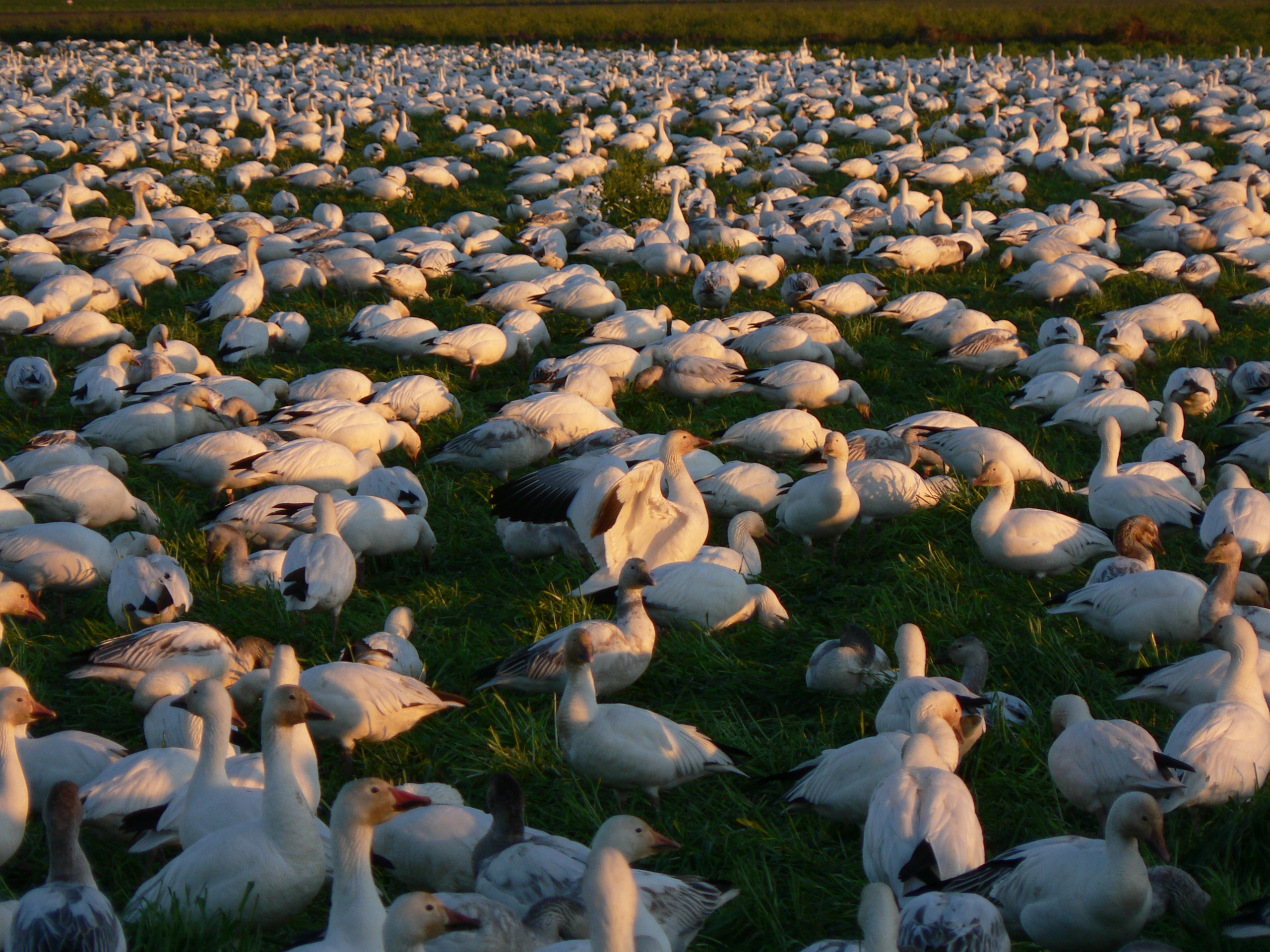 Lesser Snow Goose